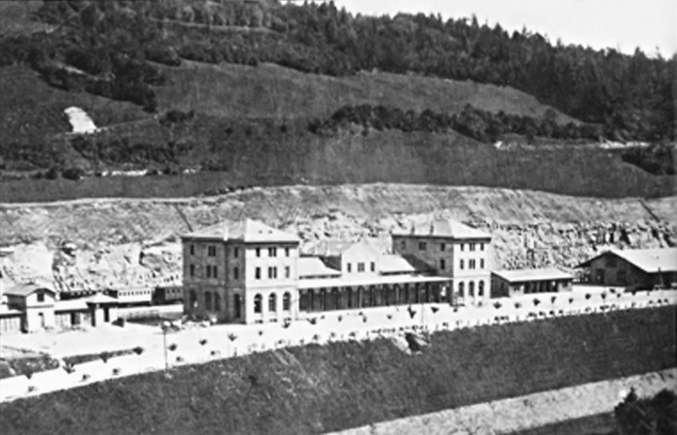 Alter Bf. Calw